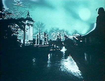 The death of Narcissus